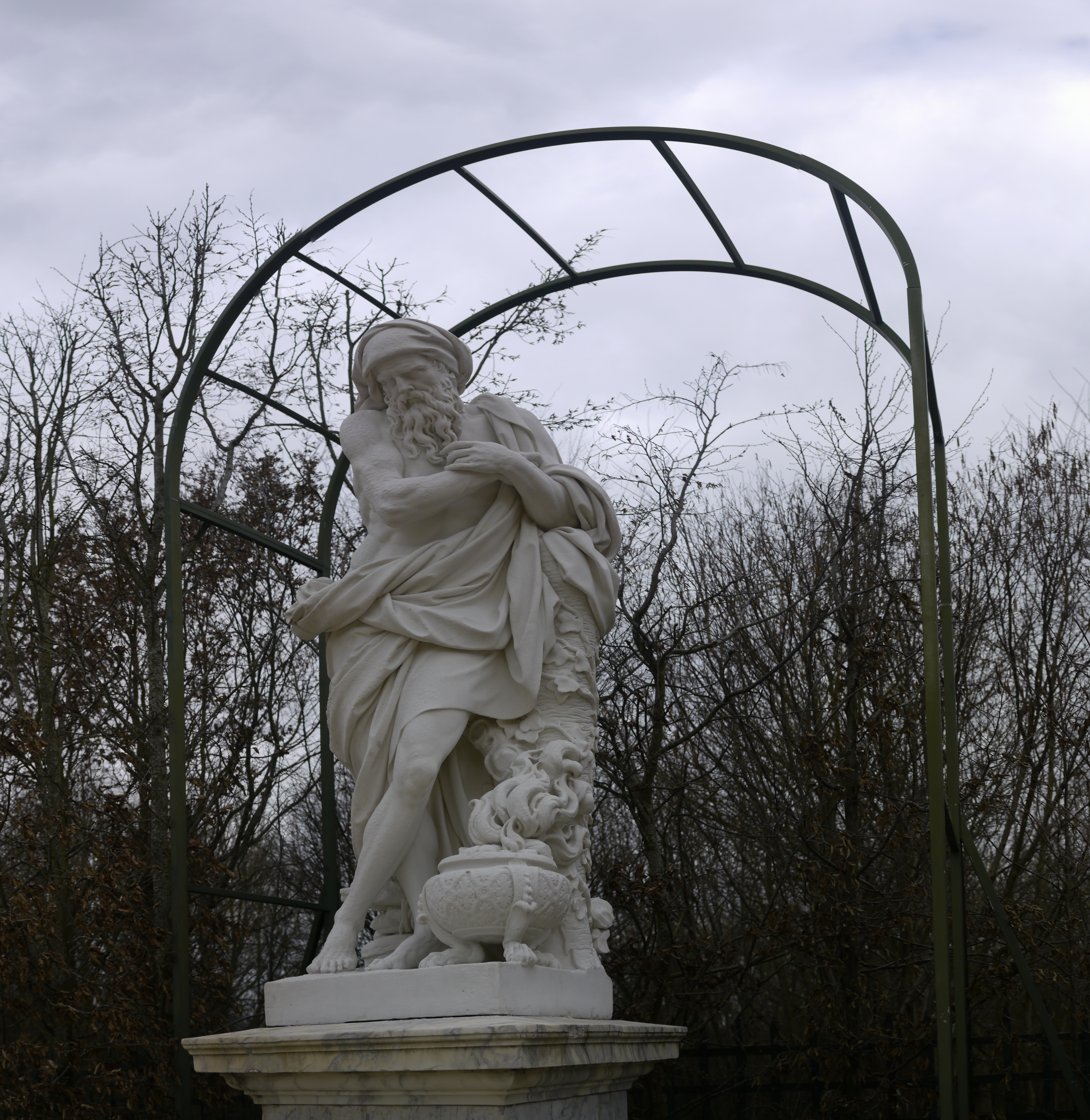 L’Hiver (Winter) by Girardon. Photograph taken at the Park of the 'Château de Versailles' in France.